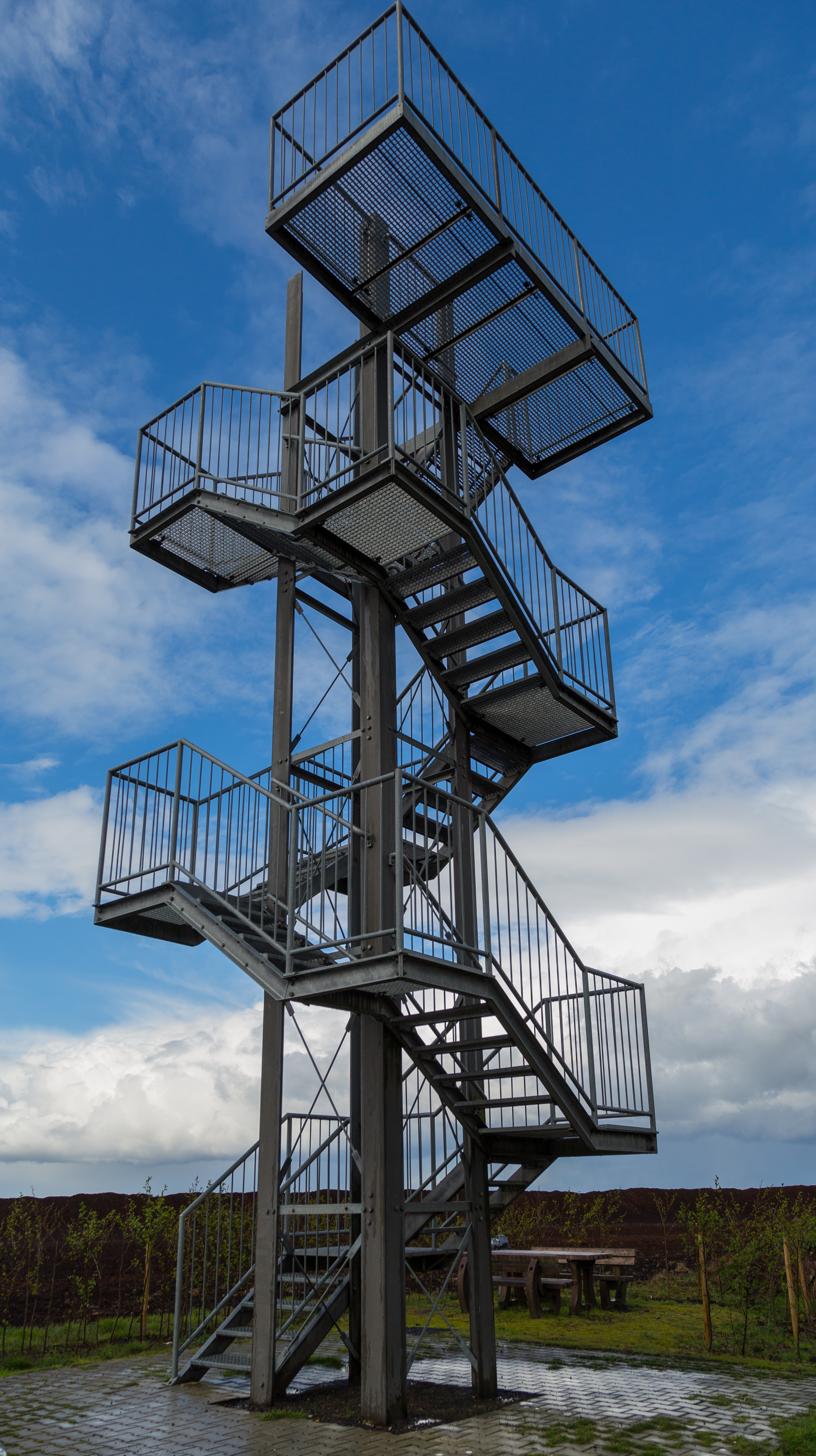 Observation tower at the nature reserve Leegmoor, a bog near Surwold, Landkreis Emsland, Lower Saxony, Germany.